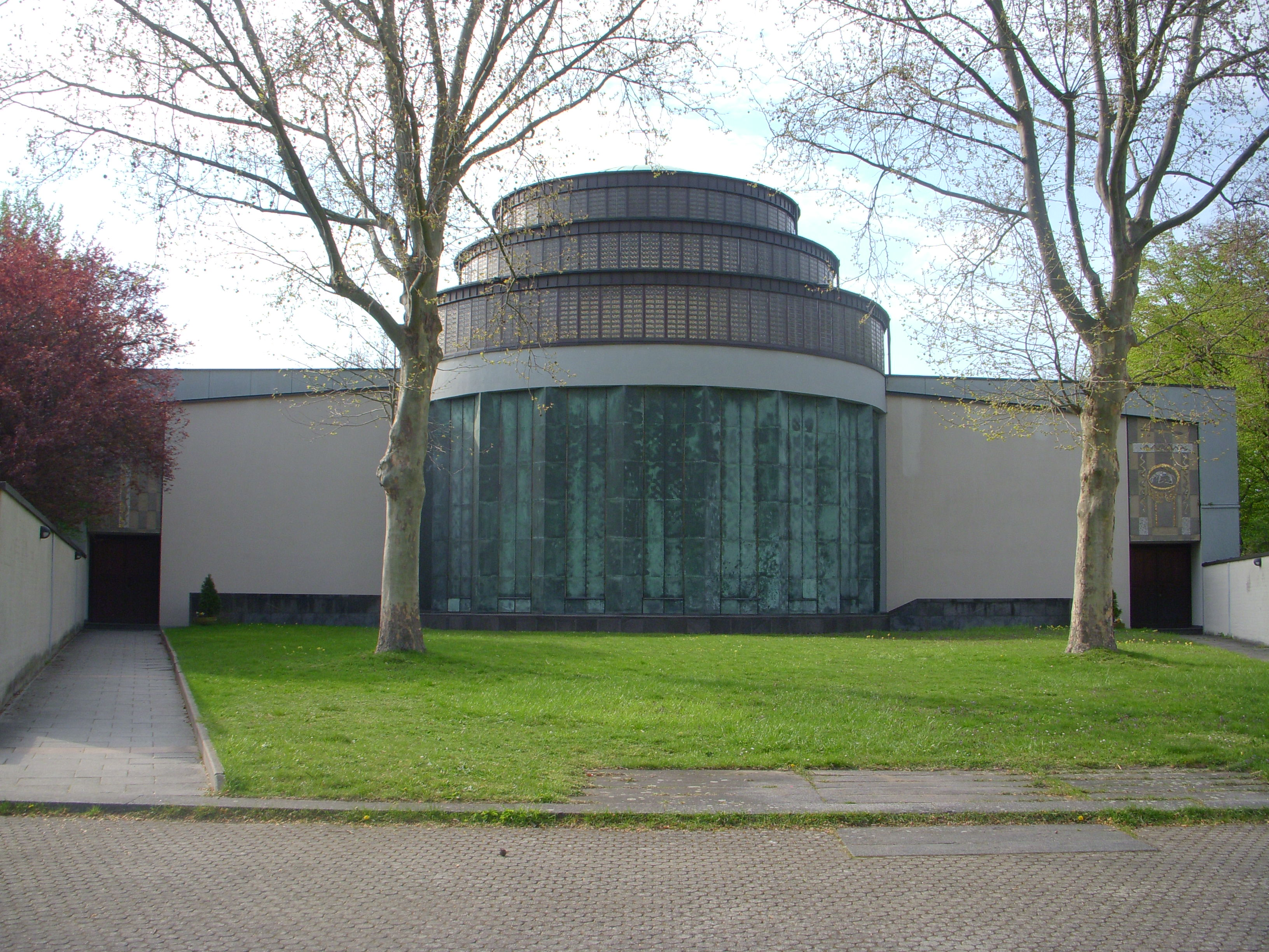 Holy Cross Church, Mainz, Germany